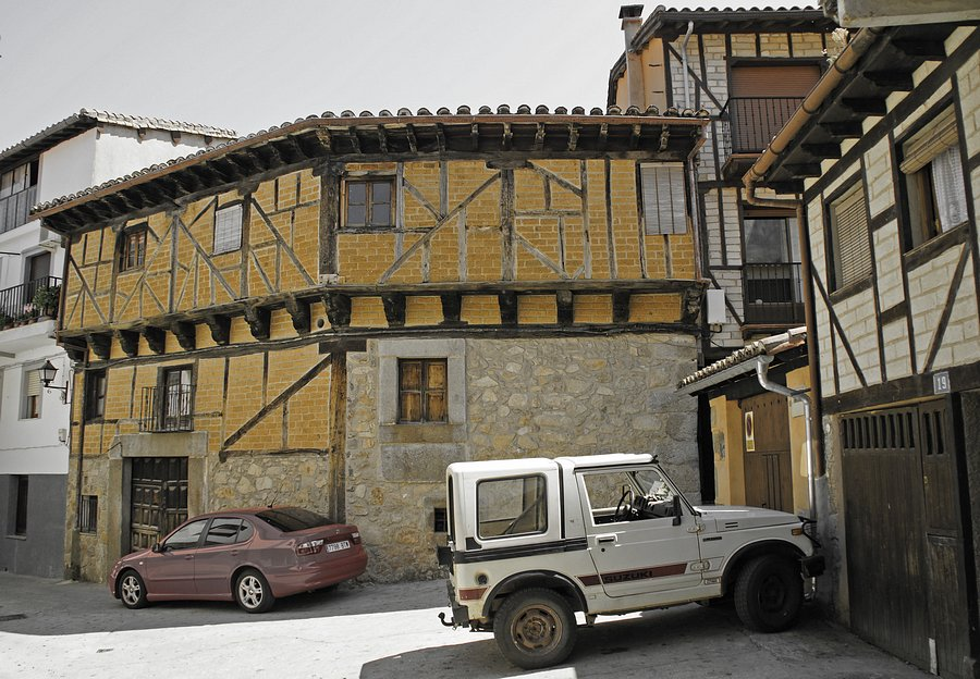 Arquitectura típica